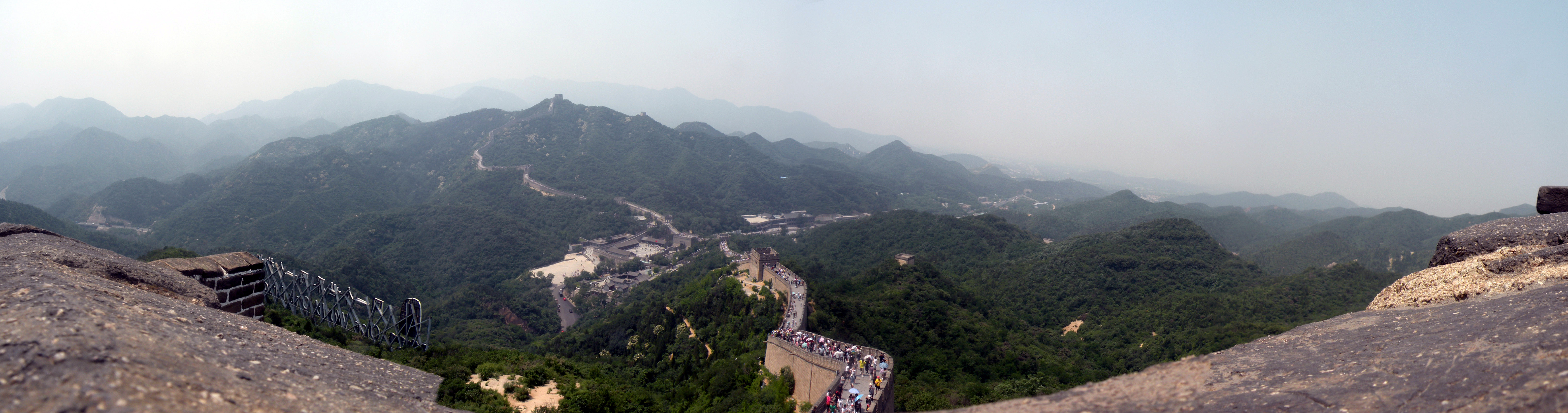 Panorama picture of the great wall - picture made at Badaling